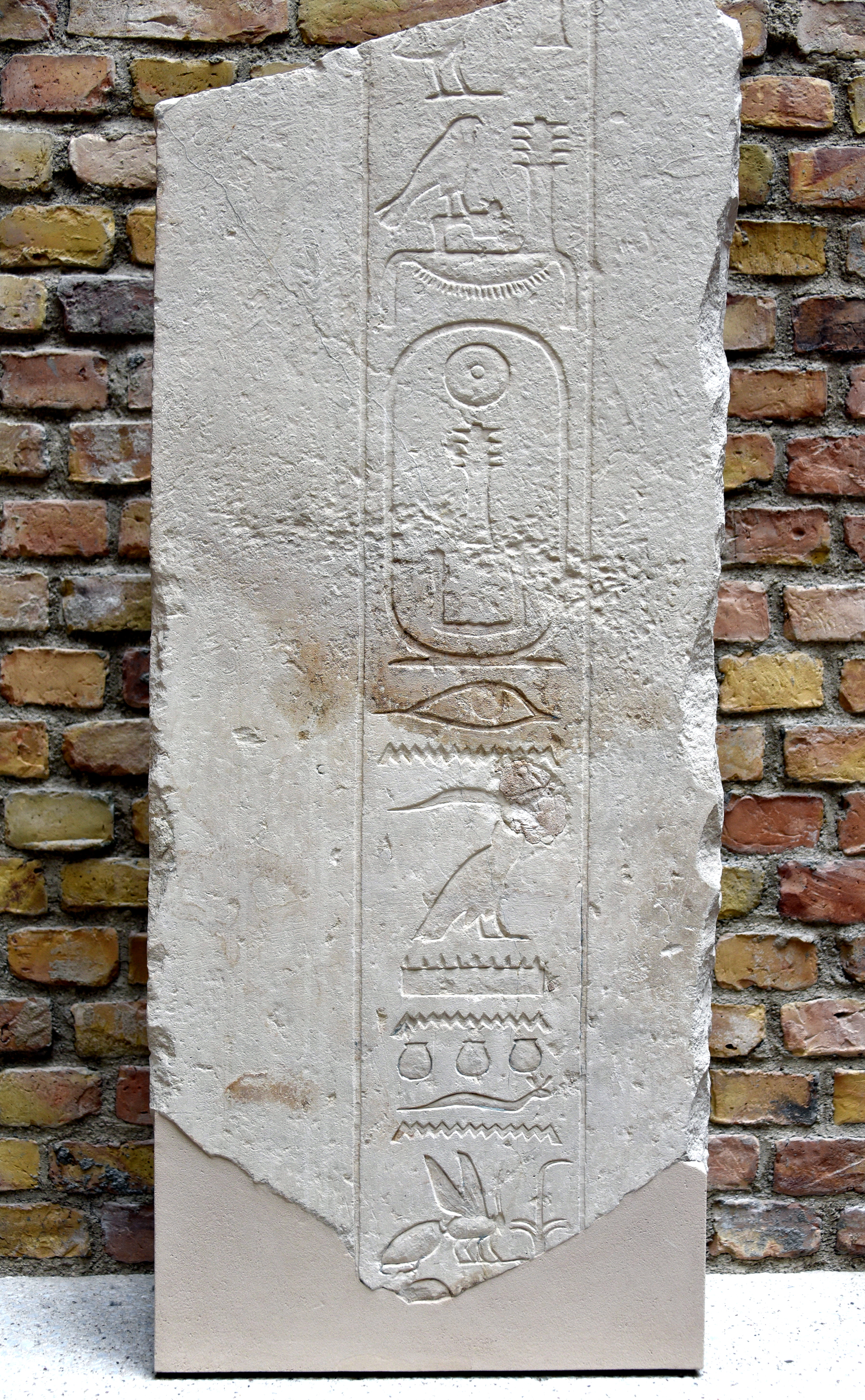 Part of a door jamb showing the cartouche of pharaoh Djedkare Isesi. From the Sun Temple of Nyuserre Ini at Abu Gorab, Egypt. Old Kingdom, 5th Dynasty, c. 2430 BCE. Neues Museum, Berlin, Germany. Limestone.